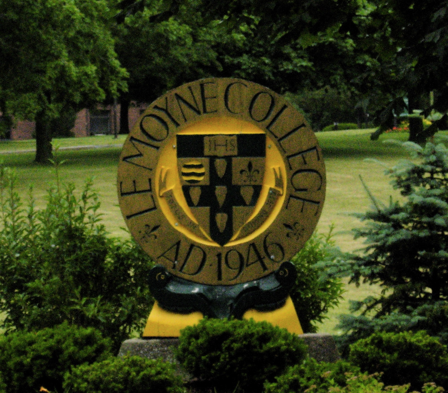 Le Moyne College sign, Syracuse, NY